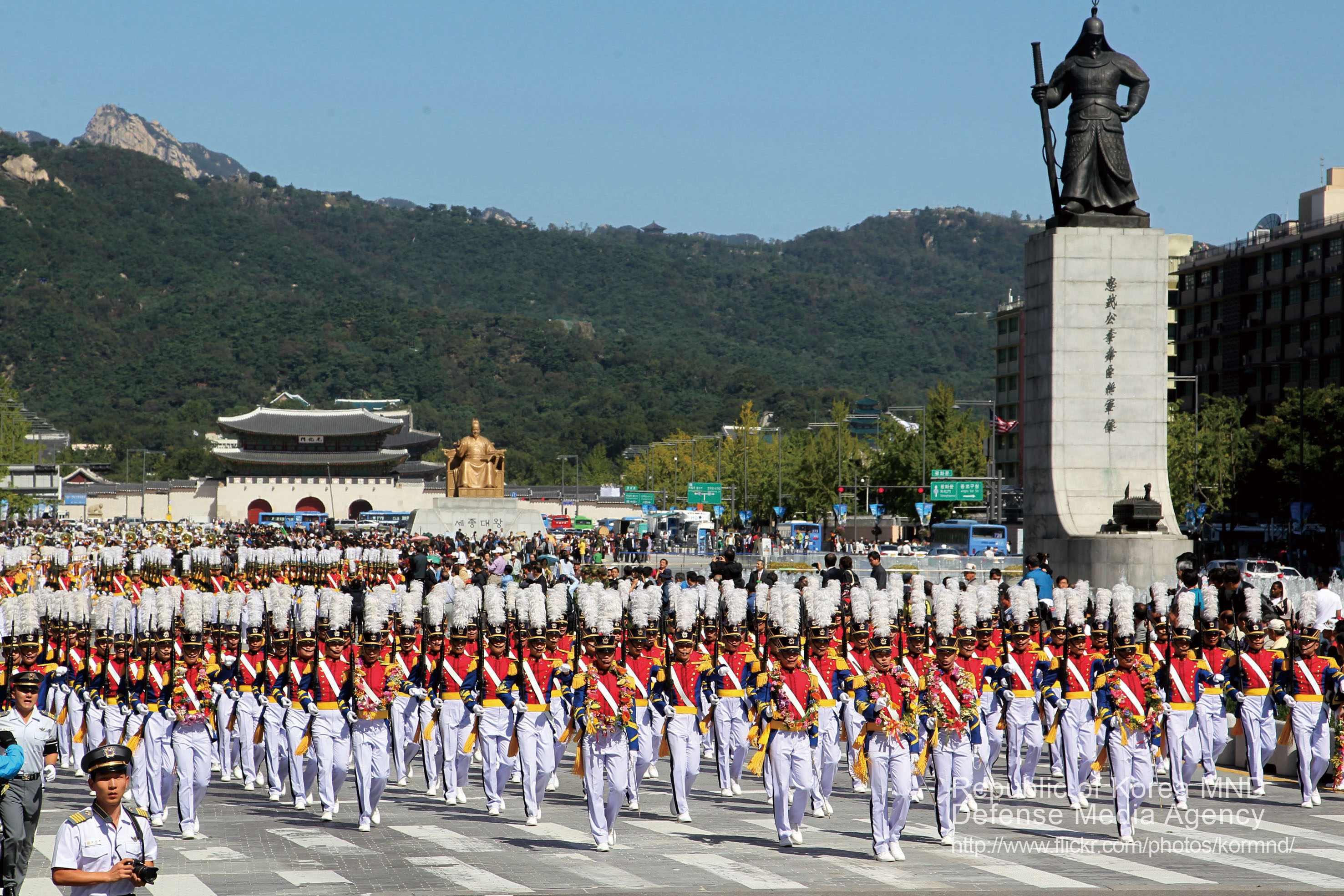 2010 국방화보 Rep. of Korea, Defense Photo Magazine 6·25전쟁 60년 서울 수복 기념 국군의 날 행사가 열린 9월 28일 서울 광화문광장에서 덕수궁까지 군 장병들이 시가행진을 하고 있다. ROK Armed Forces soldiers are parading through the city, September 28.